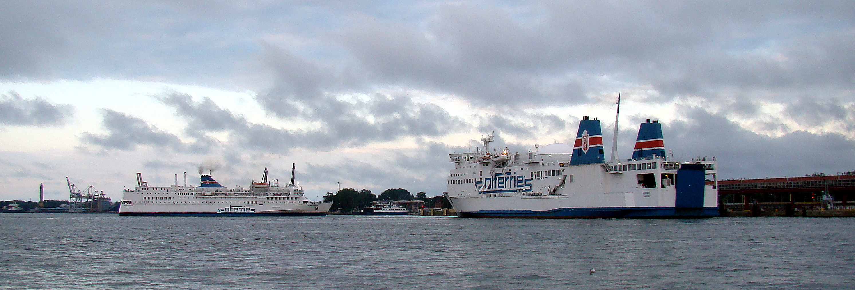 MF Wawel and MF Pomerania in Ferry Terminal Swinoujscie